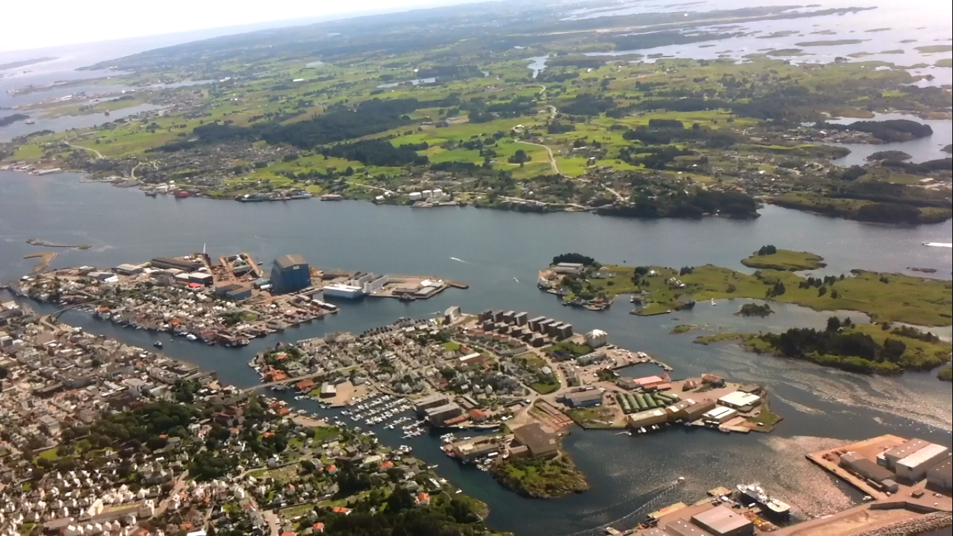 Aerial view of Haugesund centre looking south. Hasseløy is the island in the center of the image.